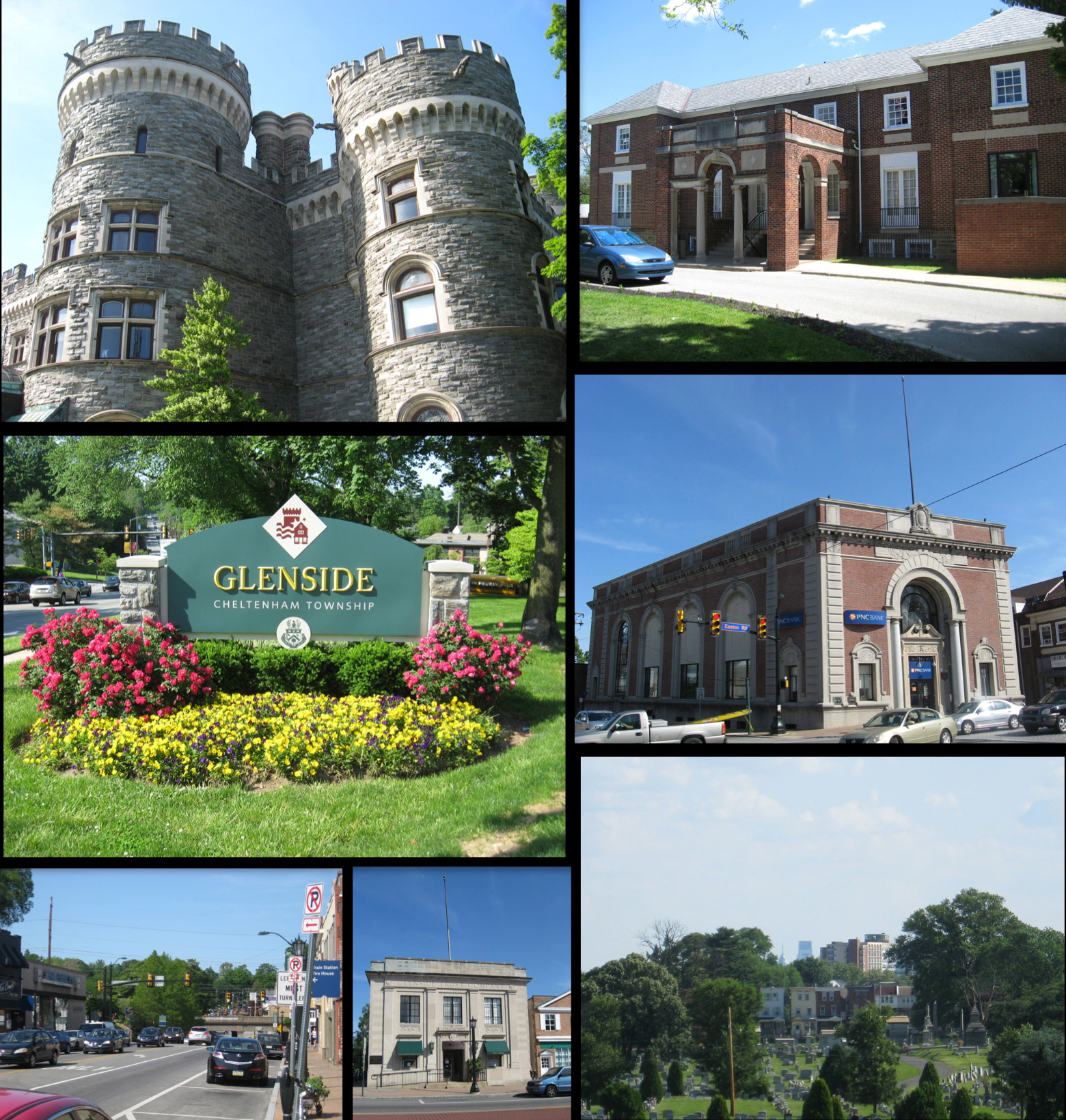 Collage of various Glenside Landmarks